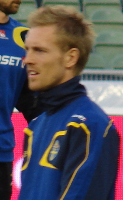 Taken at Ullevi for the match between Sweden and USA.